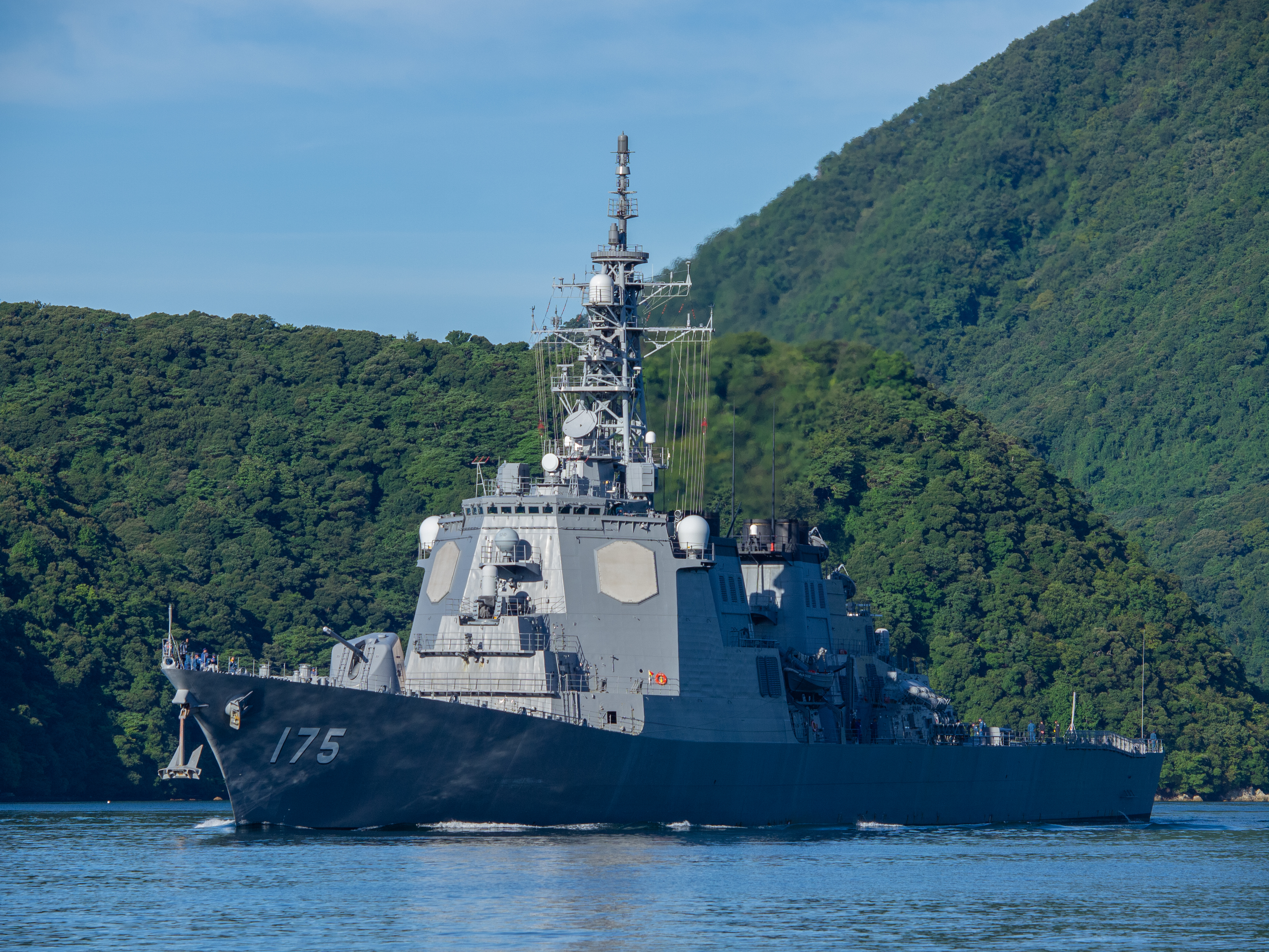 AIGIS Destroyer JS "Myôkô" on Maizuru Bay